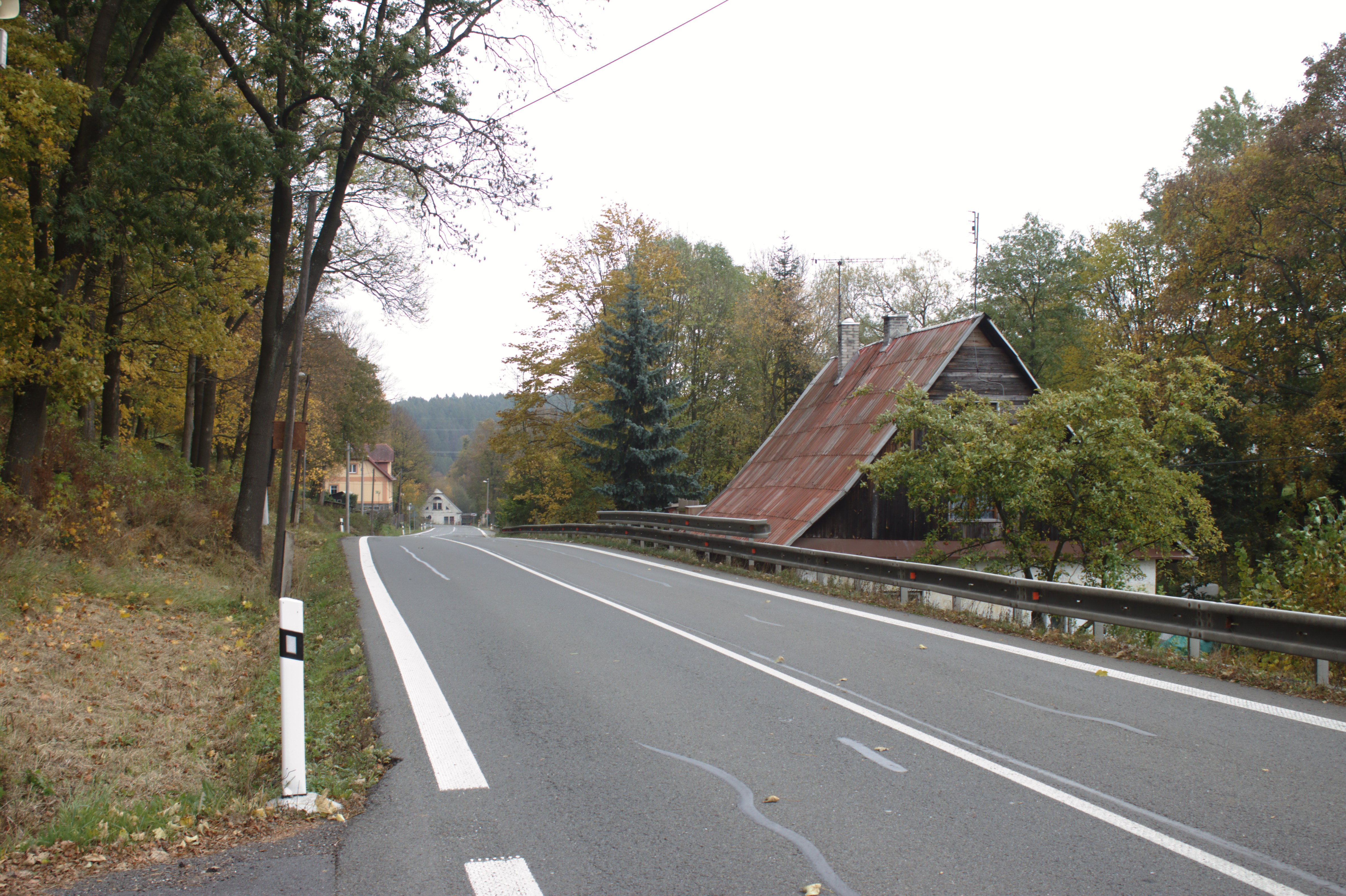 A road in the lower part of the village of Bílčice, Moravian-Silesian Region, CZ